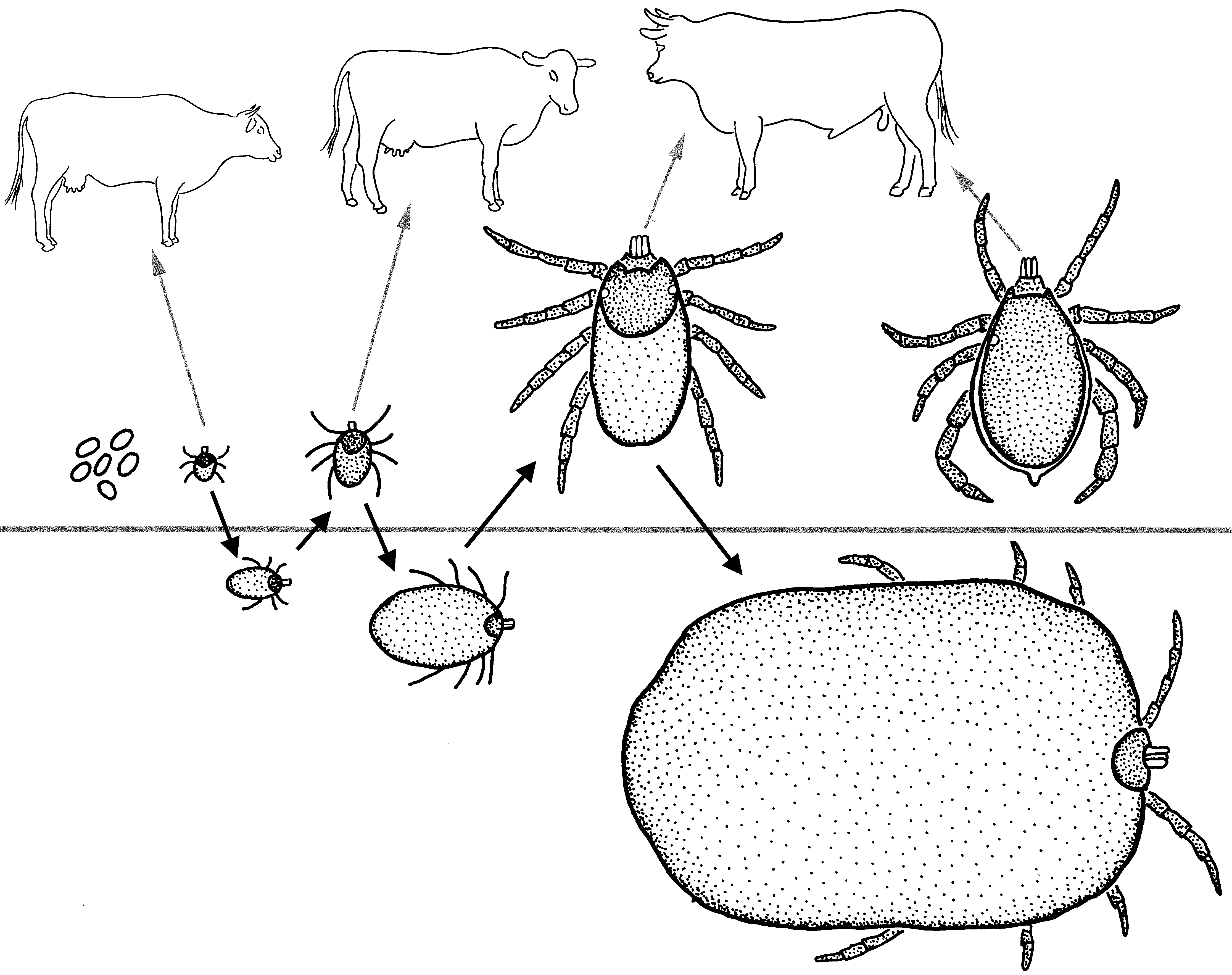 Rhipicephalus hard-tick life cycle, an incomplete metamorphosis, in a three-host cycle.